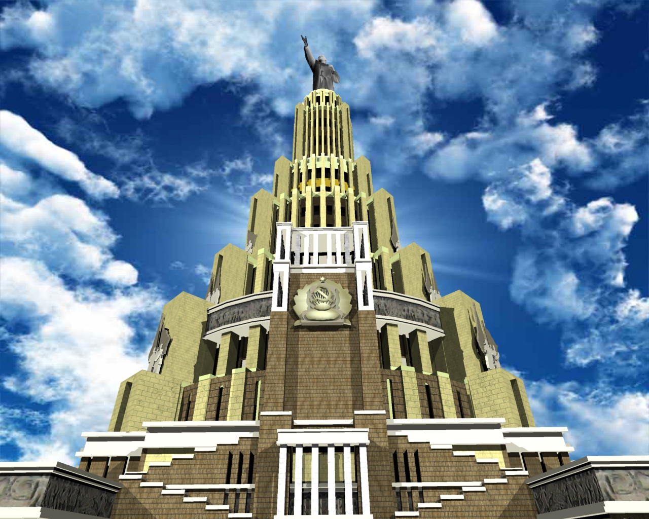 Palace Of Soviets the Soviet Union, (done in 3D Max)